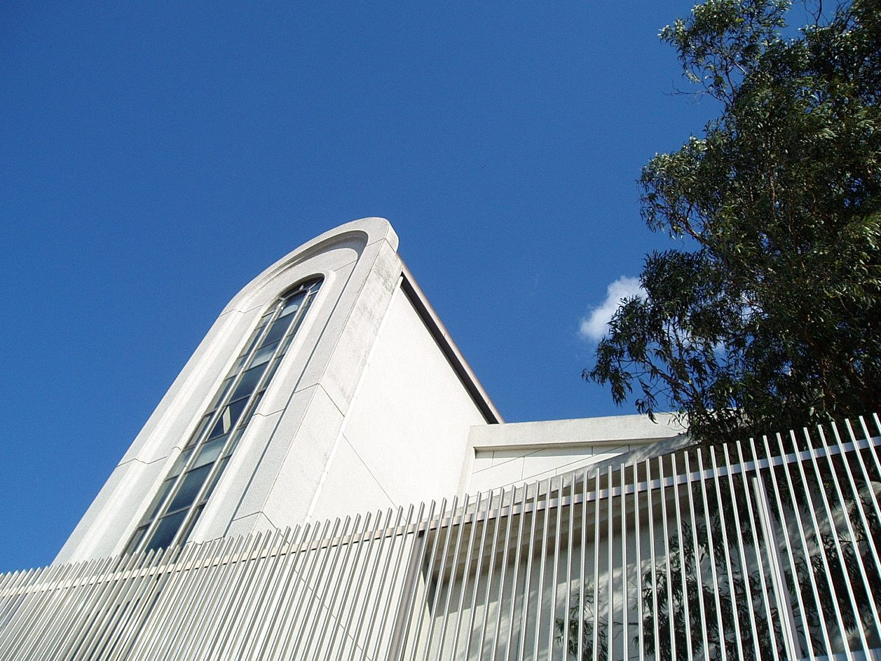 Hyogo Prefectural Hyogo Senior High School (West side)